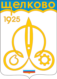 Shchelkovo (Moscow oblast), coat of arms (1975)